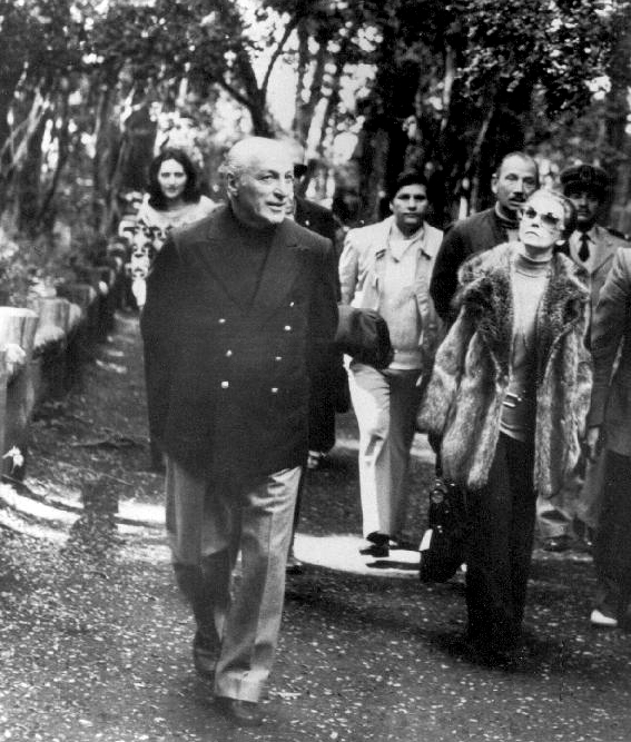 Argentine minister and politician José López Rega